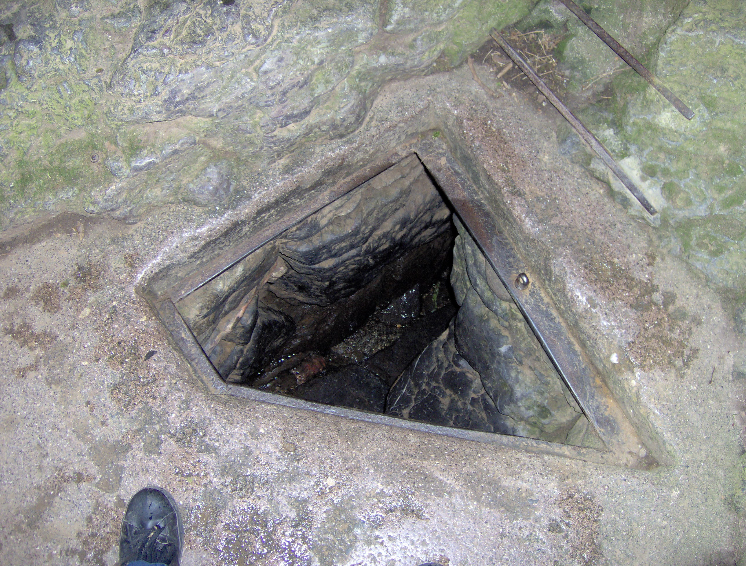 Entrance to Swildon's Hole. Taken by Rod Ward 15th August 2006